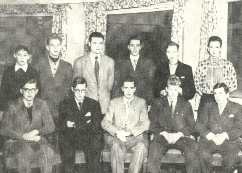 Junior New Year tournament 1952/53 in Trondheim. Group photo